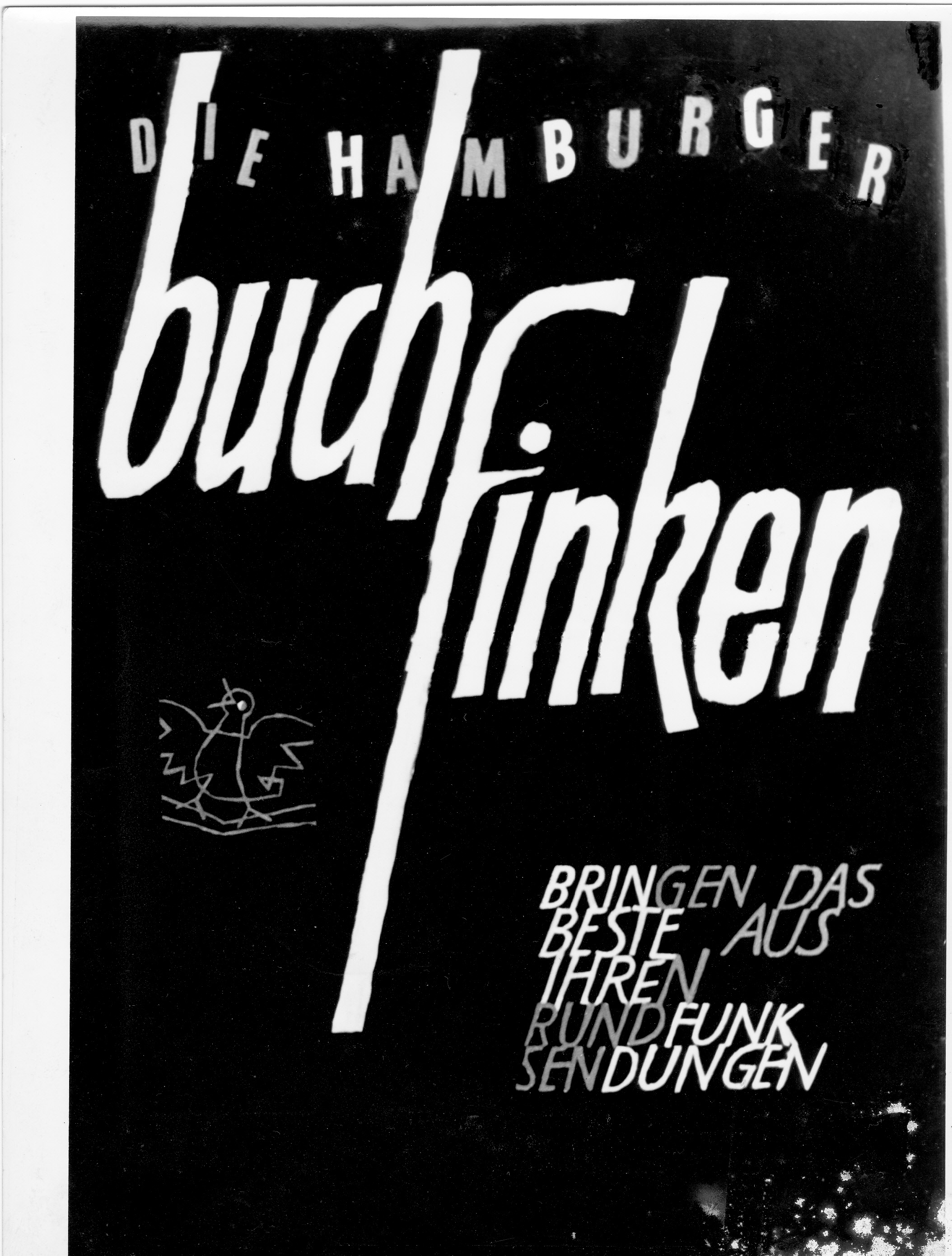 advertising poster of "Die Buchfinken"